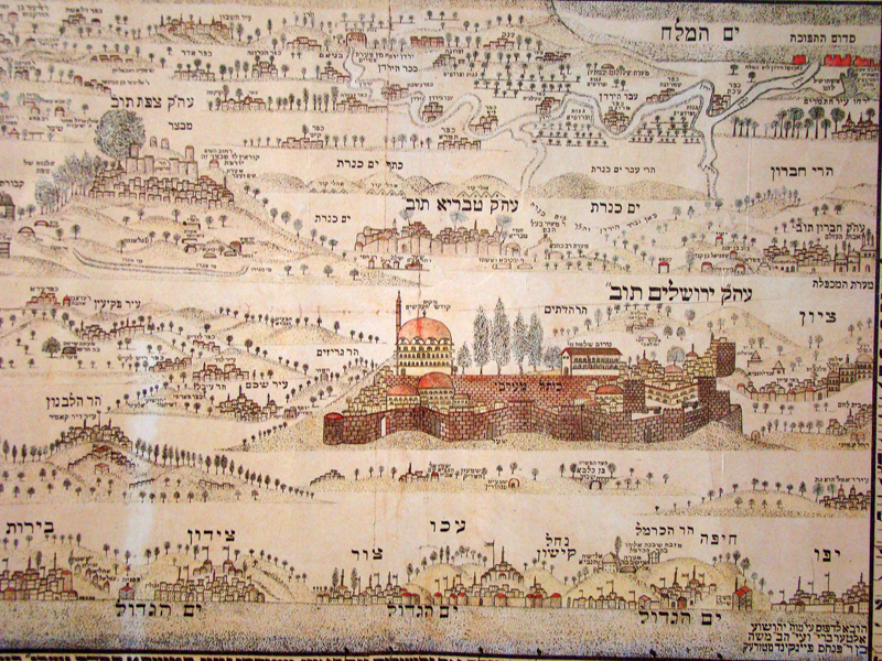 Map of the Land of Israel by Rabbi Chaim Salomon Pinta of Zefat (1875). This illustration, in Hebrew and German, represents an original group of maps. Five longitudinal strips show five regions, from Lebanon in the North to Gaza, Hebron and "upturned Sodom" in the South, seen in perspective from West to East. The printing base is unusual, too; the map was produced on cotton cloth. The Holy City of Jerusalem occupies the map center. But although the author was a native of Zefat who knew the country well, the pictoral views of Jerusalem and of the city of his birth are imaginary.